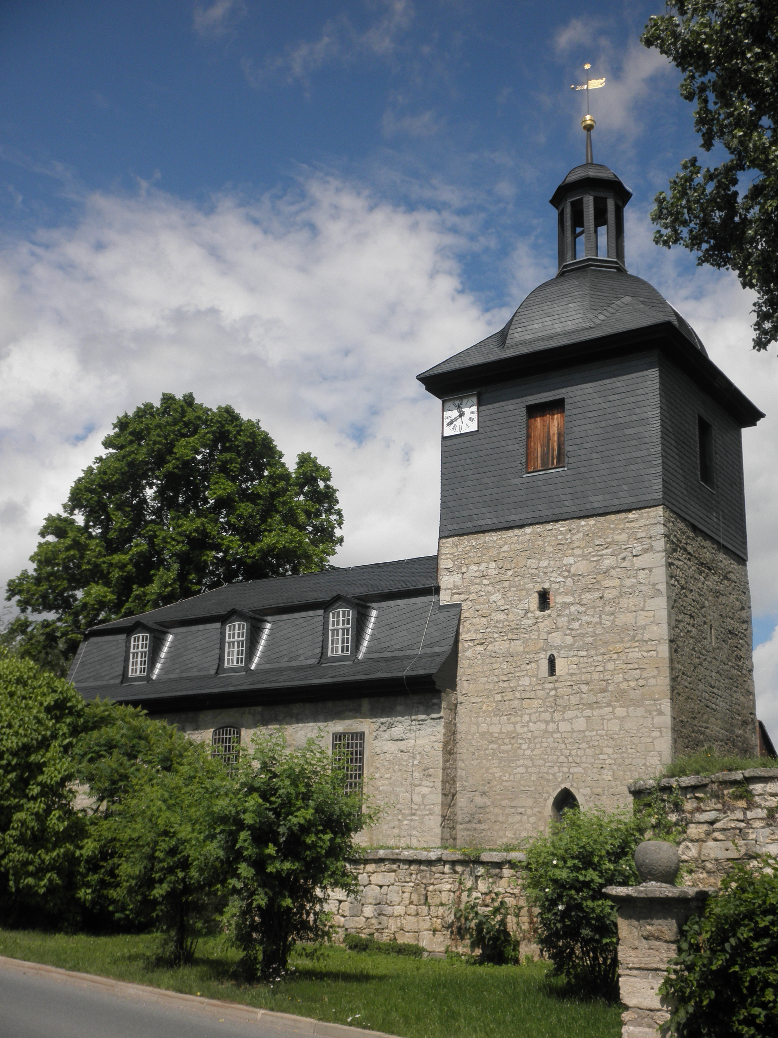 Church in Milda in Thuringia